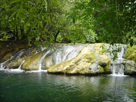 Nan Sawan Waterfall